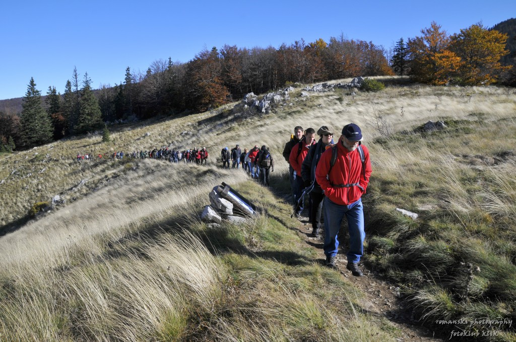 Column hikers on the trail Premužić.